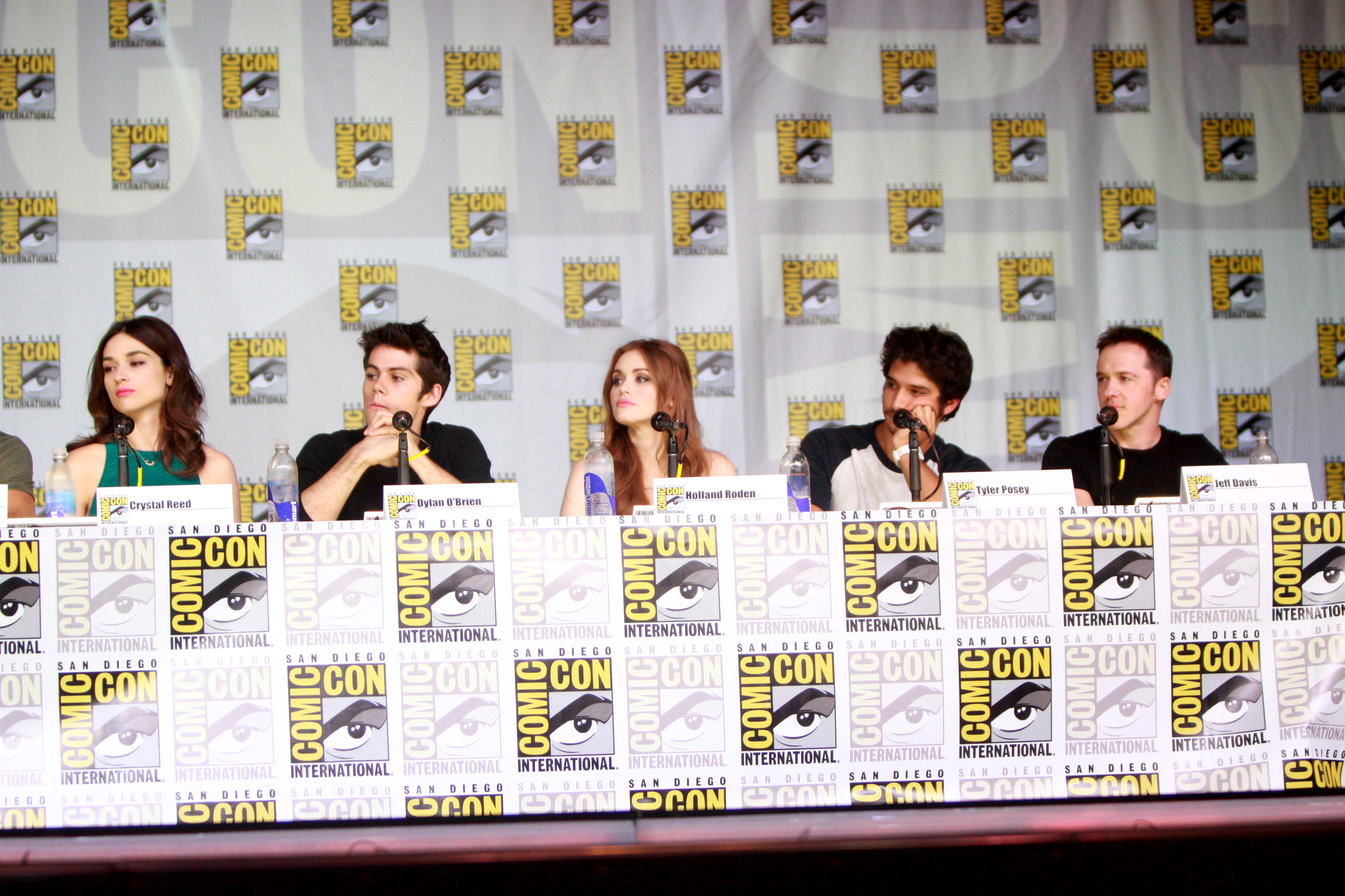 Crystal Reed, Dylan O'Brien, Holland Roden, Tyler Posey and Jeff Davis speaking at the 2013 San Diego Comic Con International, for "Teen Wolf", at the San Diego Convention Center in San Diego, California.